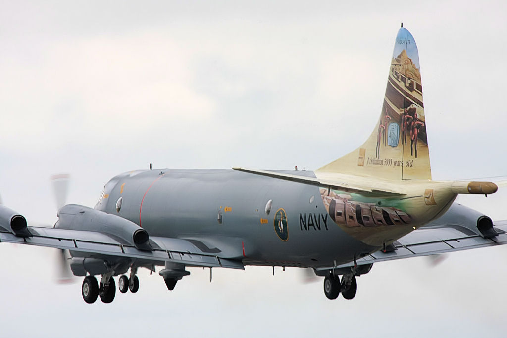 P3 Orion - RIAT 2008